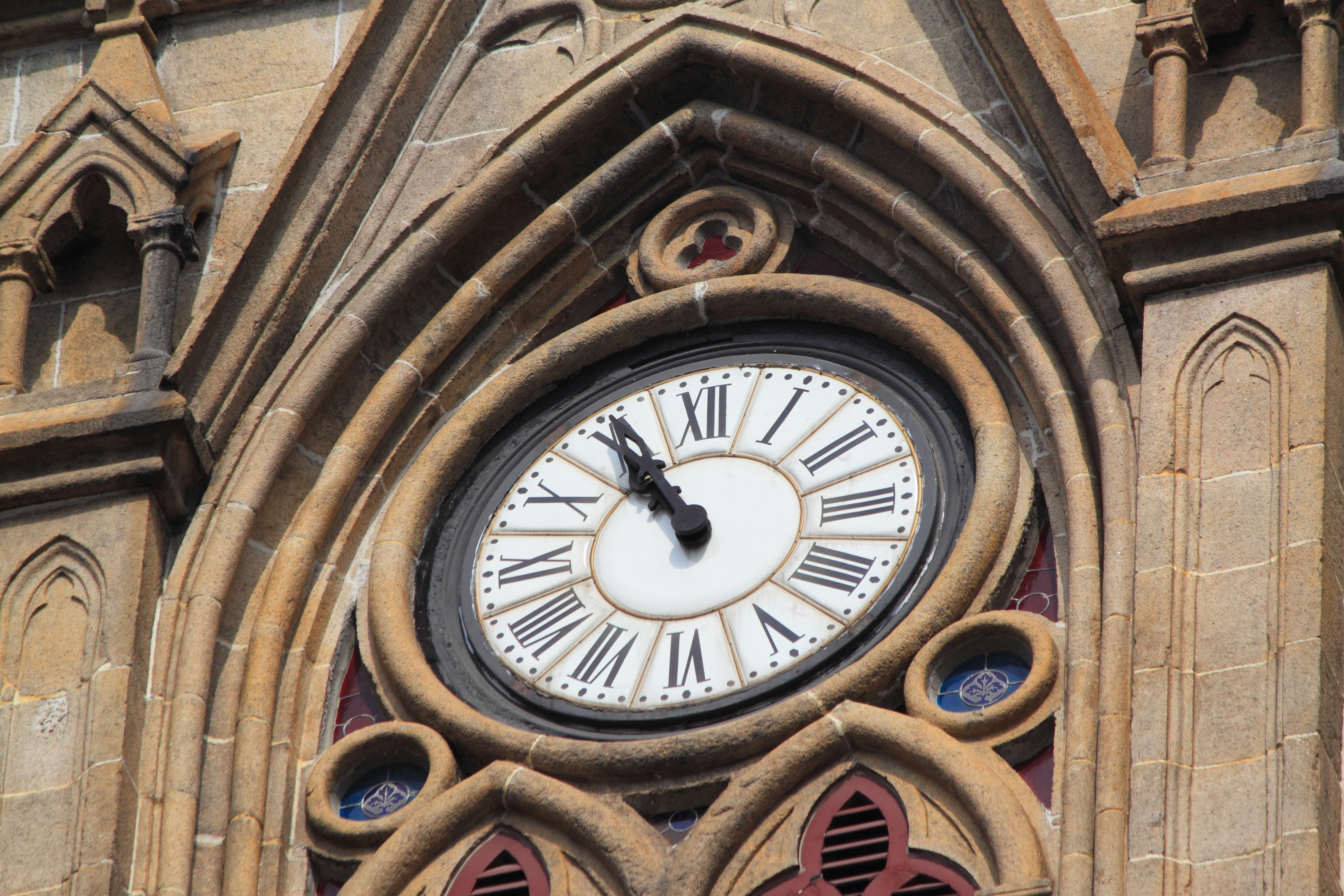 Sacred Heart Cathedral of Guangzhou，in Guangzhou, Guangdong, China.